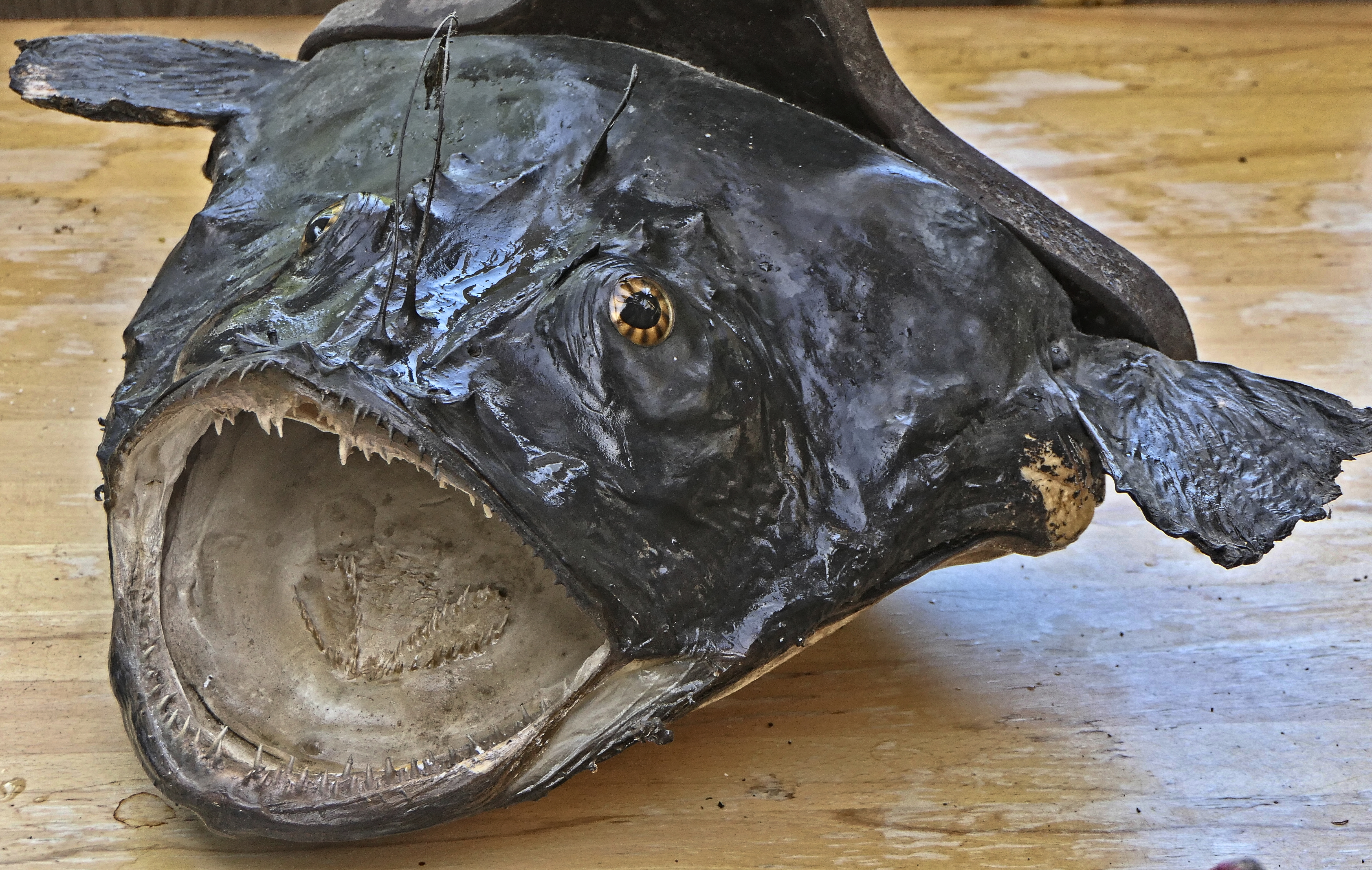 The head preparation of an angler, caught in the sea roud the island of Hitra / Norway, shown in HDR for more details.